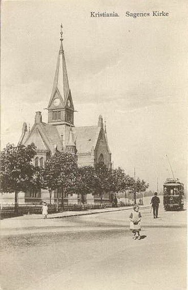 Kristiania Kommunale Sporveie tram in Akersgata